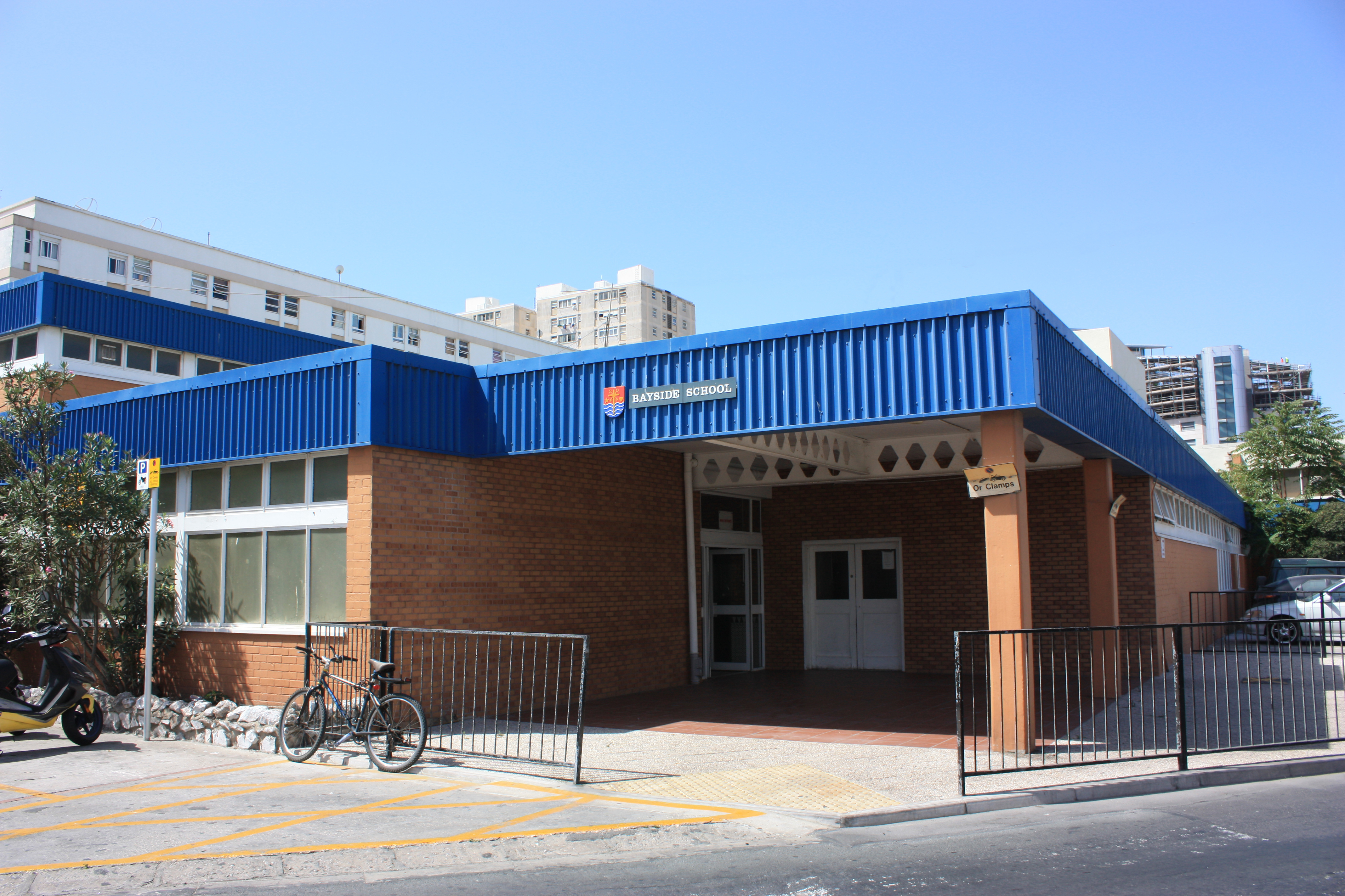 Entrance to Bayside Comprehensive School in Gibraltar.